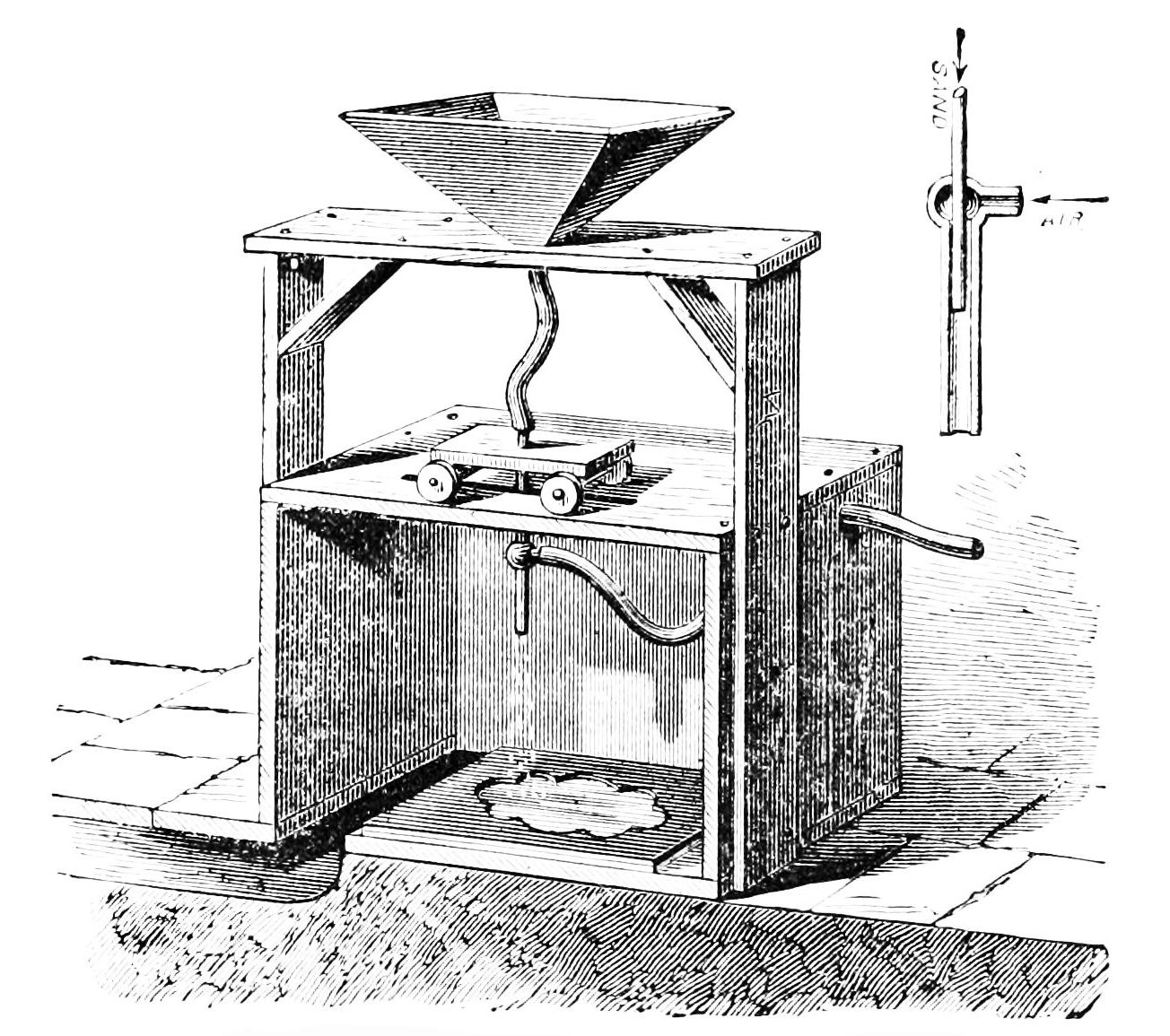 The Tilghman sand blast machine